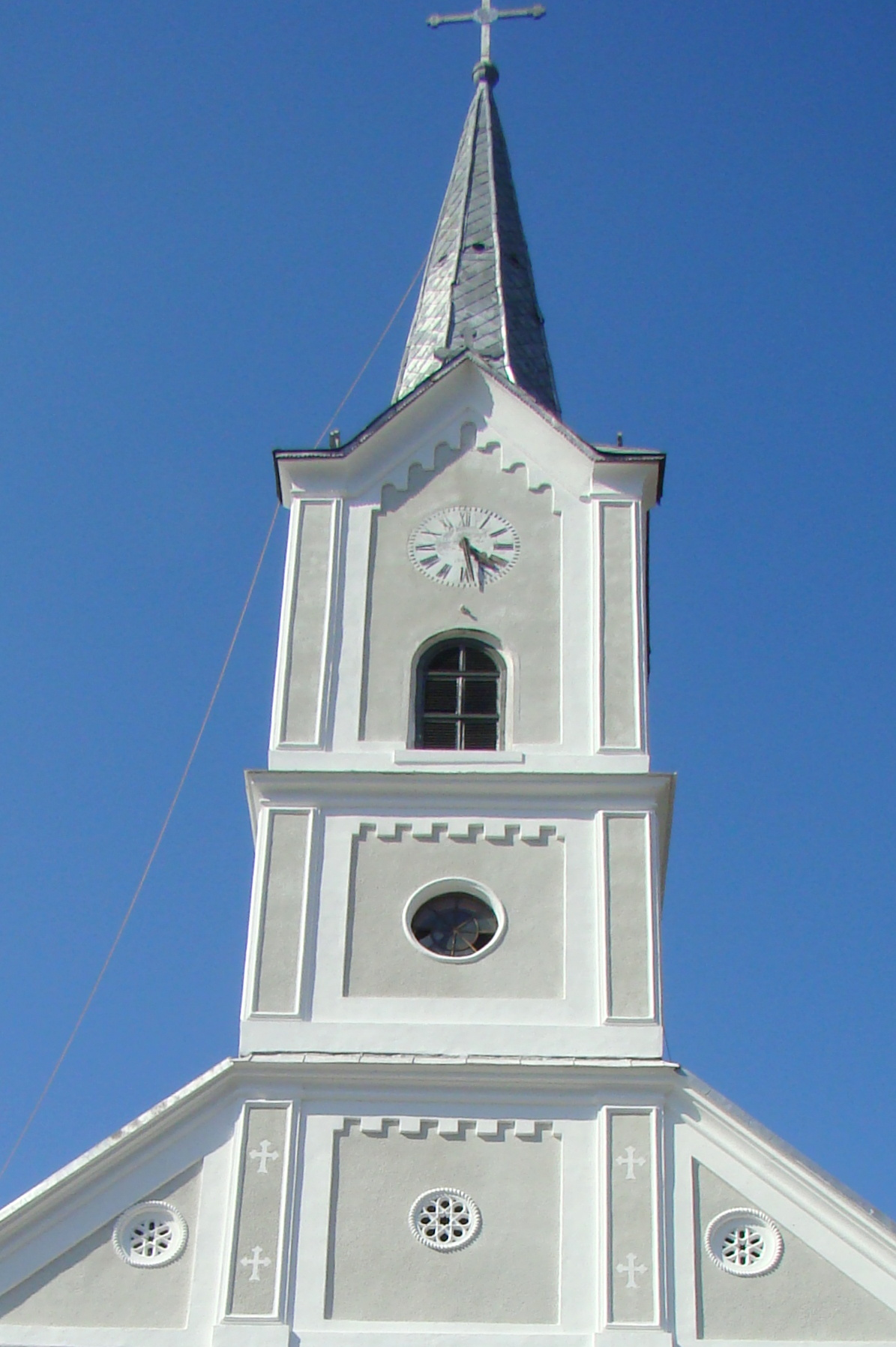 Saint Nicholas church in Sângeorz-Băi, Bistrița-Năsăud county, Romania